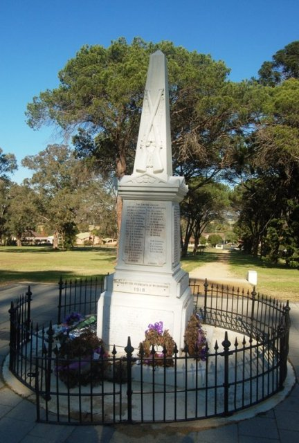 Wilberforce Park: Wilberforce War Memorial from the north.